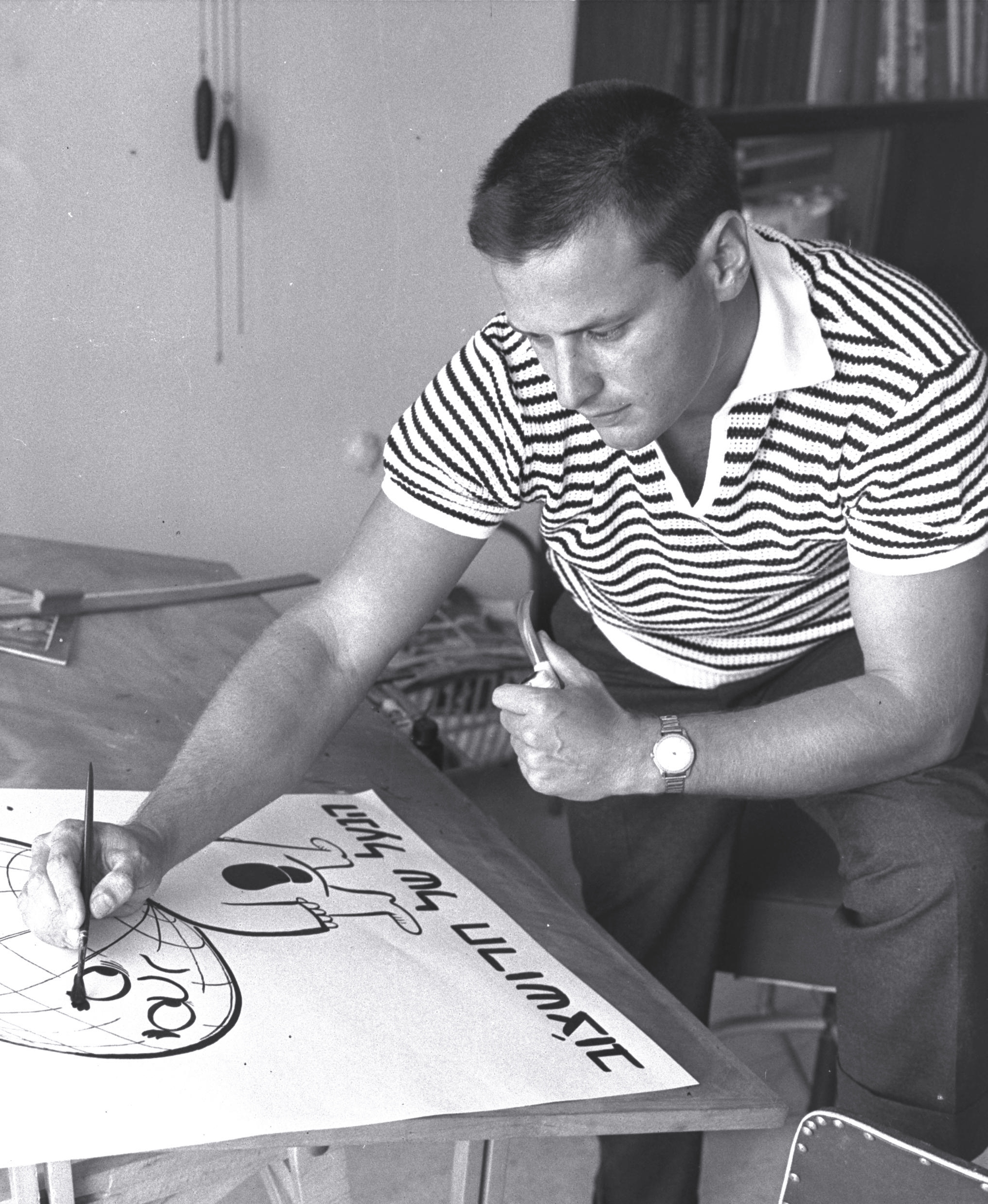 Cartoonist Raanan Lurie, Israel 1961